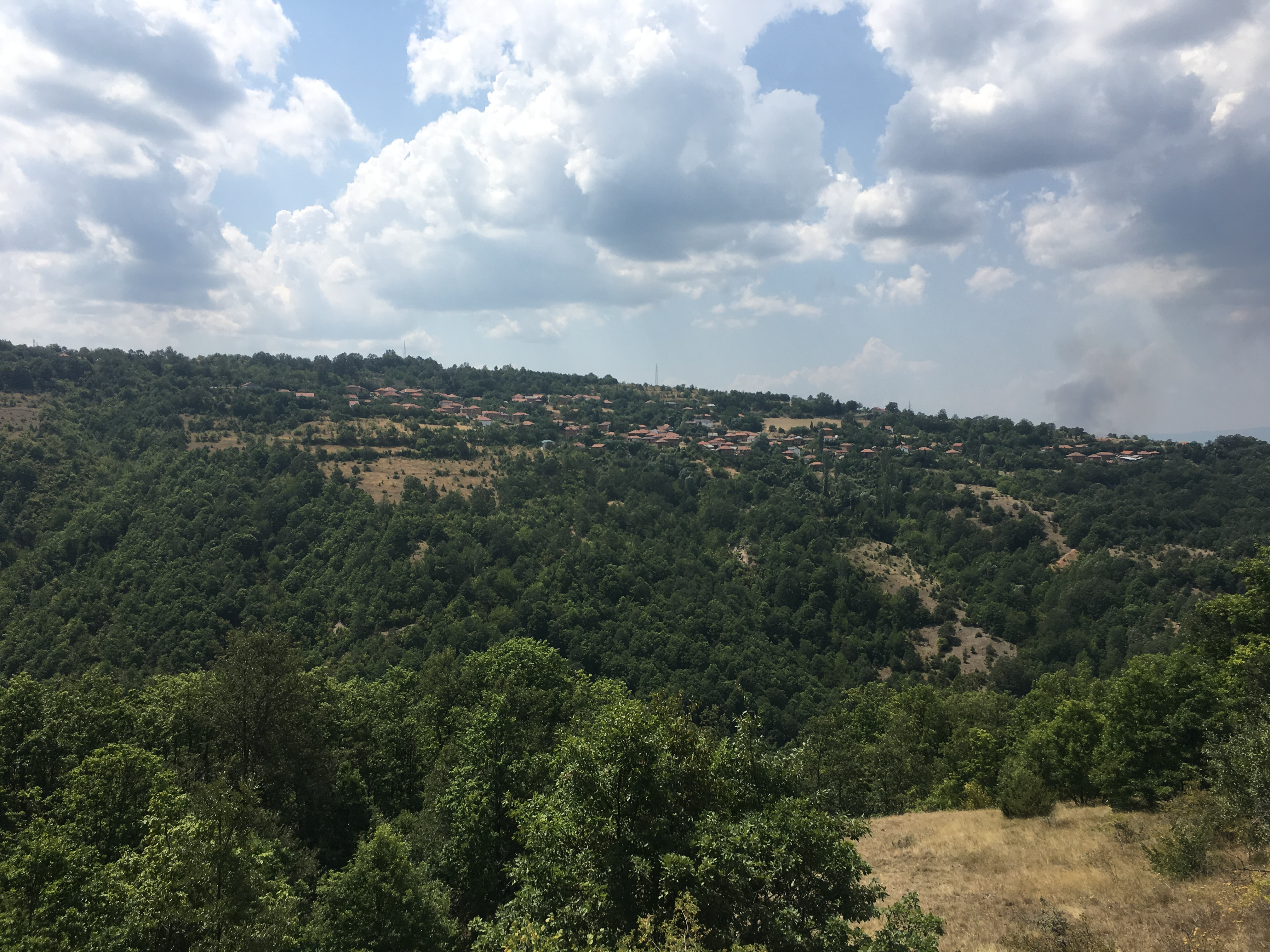 A view of the village of Sviništa